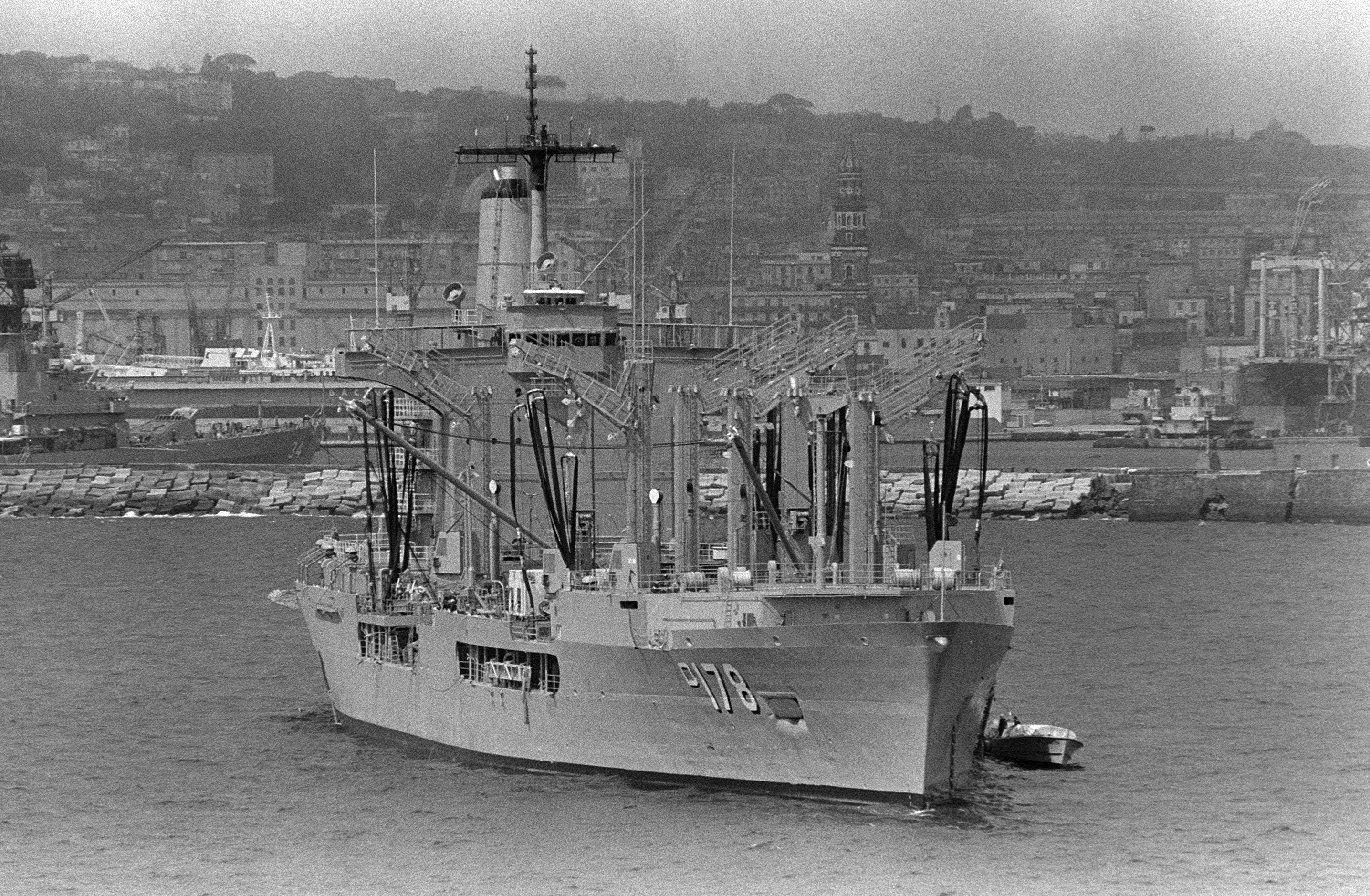 The U.S. Navy fleet oiler USS Monongahela (AO-178) anchored in an Italian port on 1 April 1986. The guided missile cruiser USS Biddle (CG-34) is visible in the background.